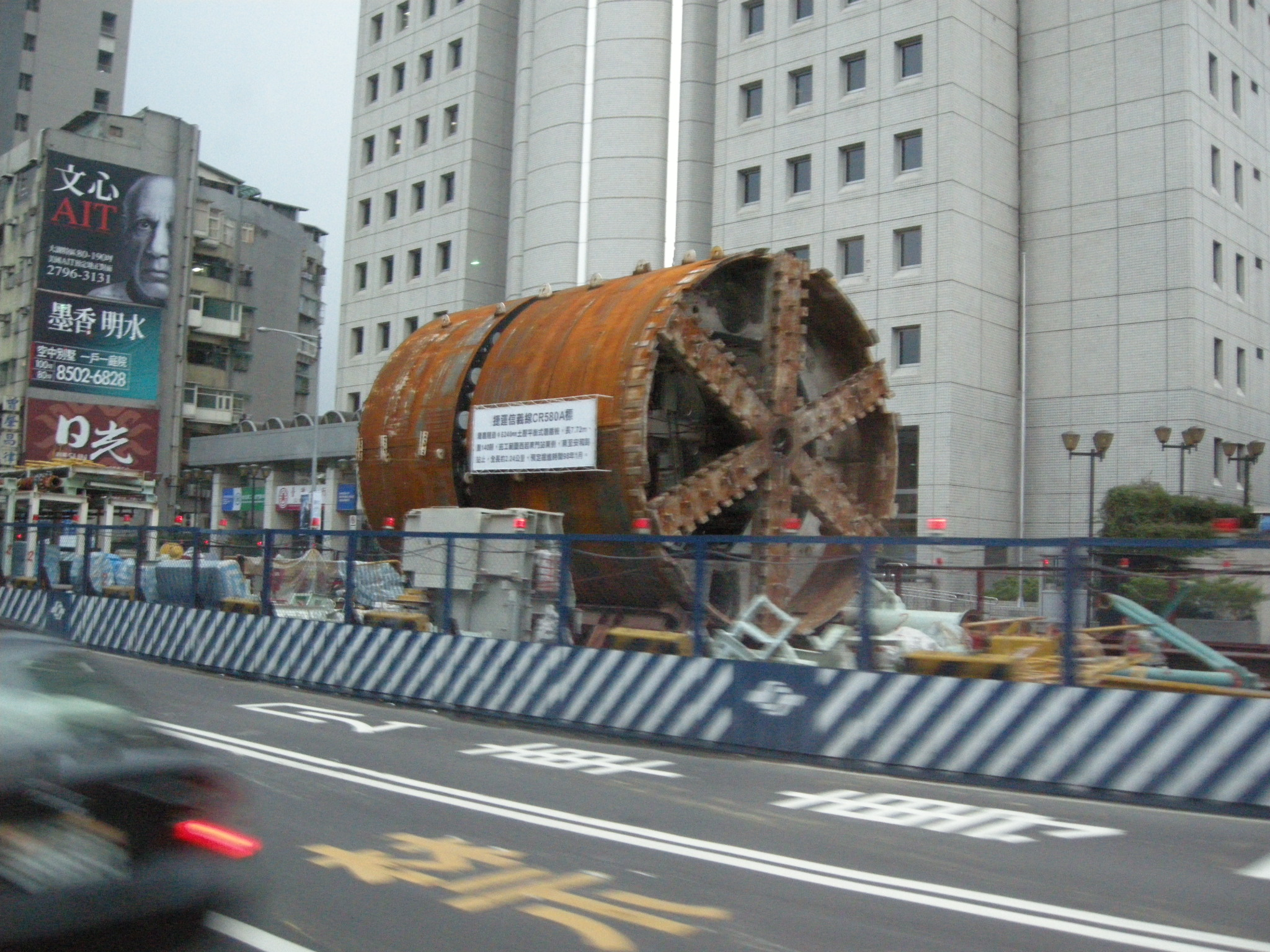 Taipei MRT Xinyi Line tunnel boring machine in front of Gongbao Xinyi Building, Central Trust of China.